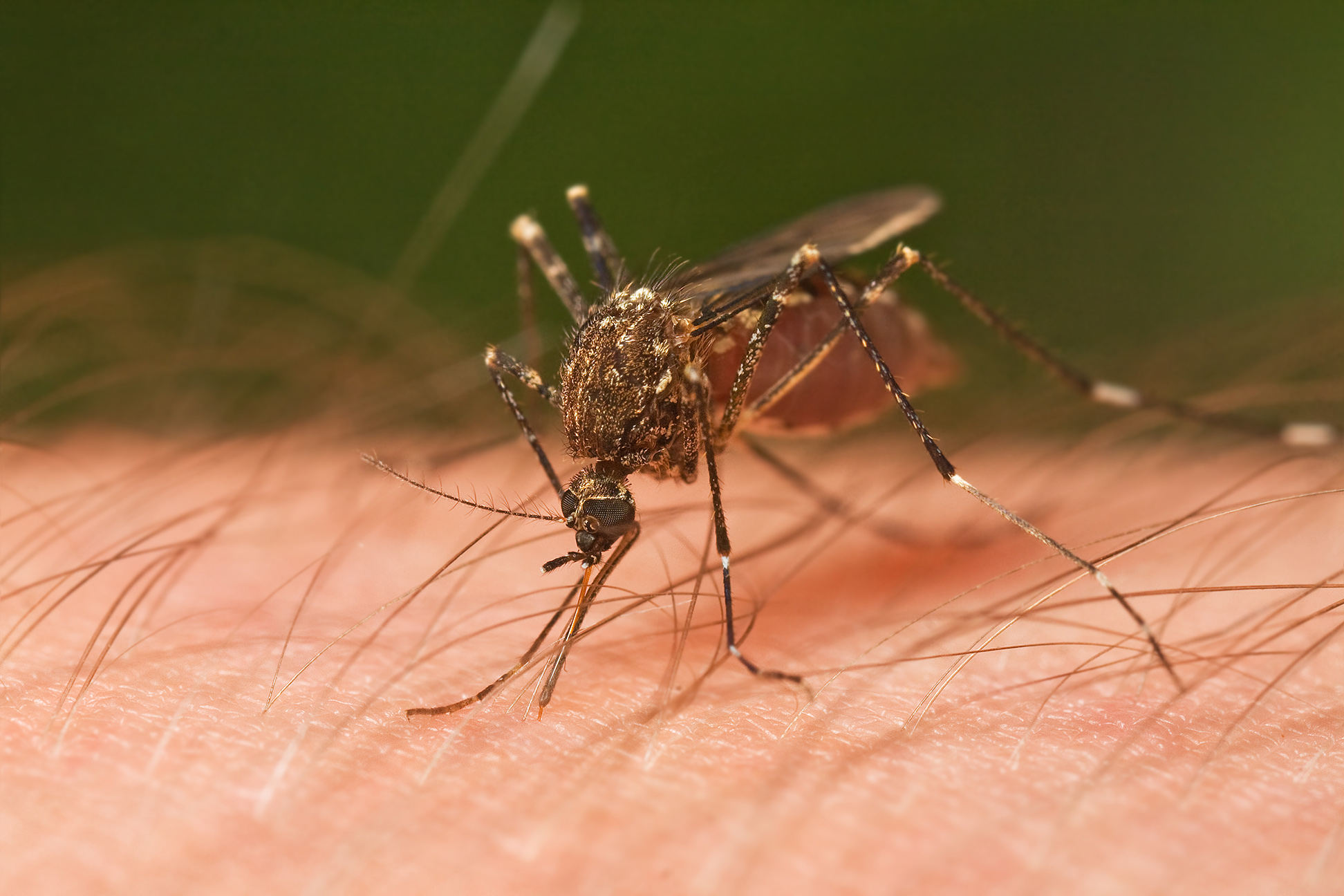 Ochlerotatus notoscriptus, Tasmania, Australia.